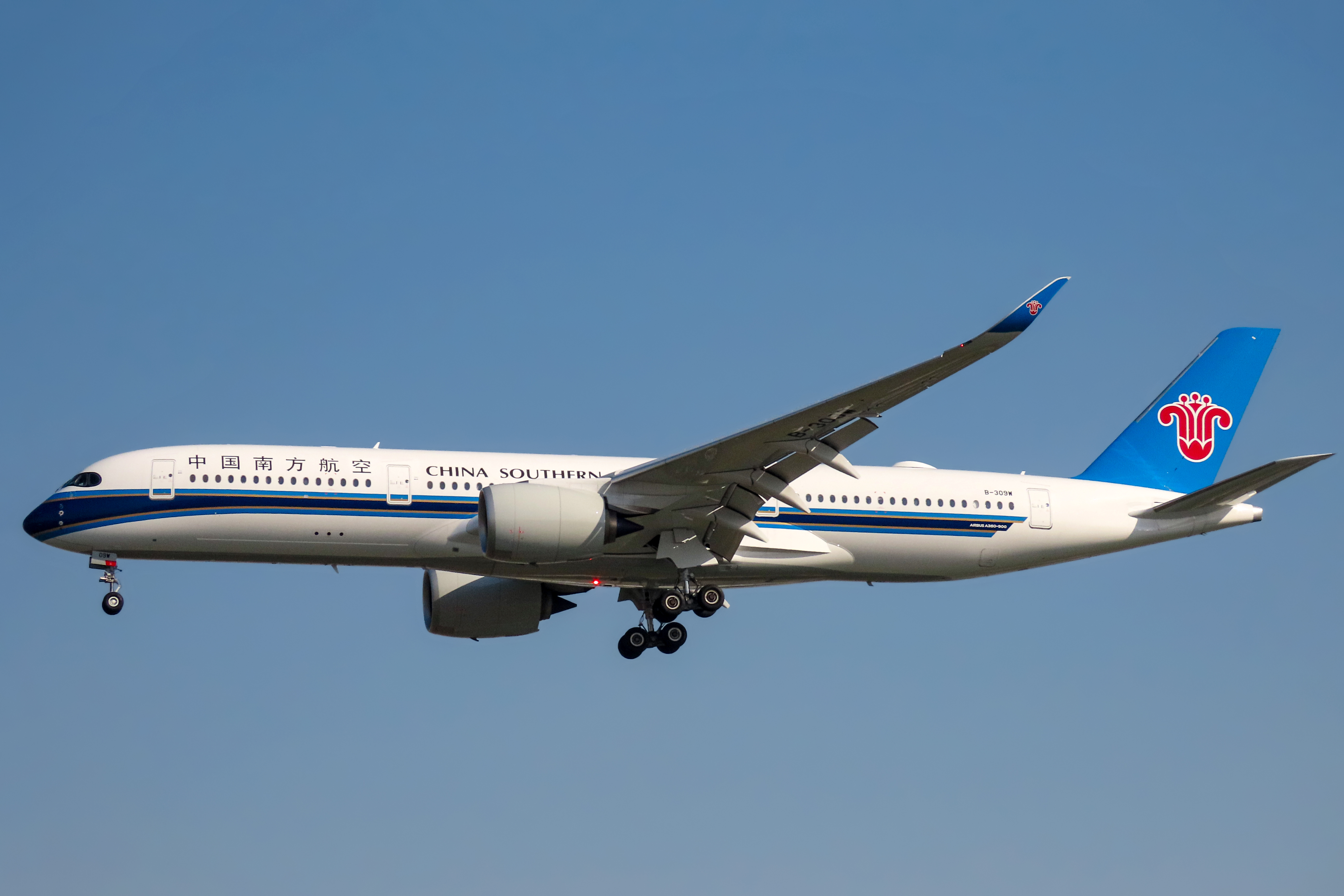 Nanfang 3103 from Guangzhou. Finally caught CZ's A350 in Beijing before they were all reallocated to the faraway PKX. By the way, 36L's got a Luckin...